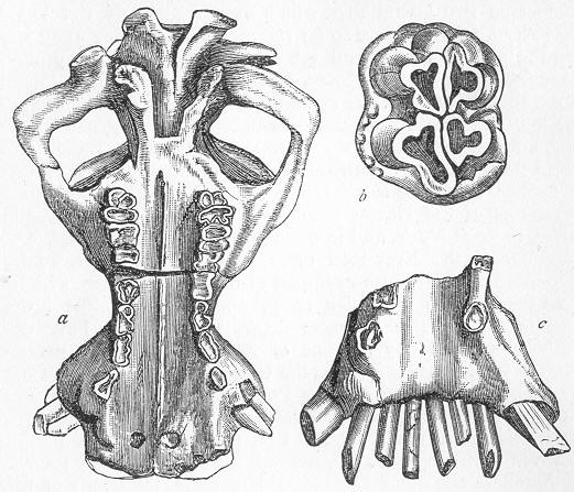 a, Skull of Hexaprotodon (formerly Hippopotamus) Sivalensis, viewed from below, one-eighth of the natural size; b, Molar tooth of the same, showing the surface of the crown, one-half of the natural size: c, Front of the lower jaw of the same, showing the six incisors and the tusk-like canines, one-eighth of the natural size. Upper Miocene, Siwâlik Hills; (After Falconer and Cautley.)